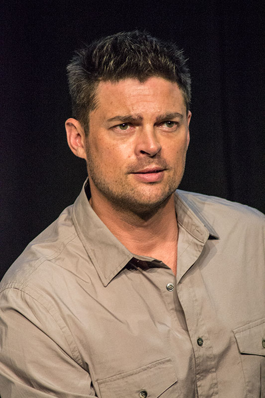 Actor Karl Urban at the Destination Star Trek convention, february 2014, Frankfurt/Main, Germany